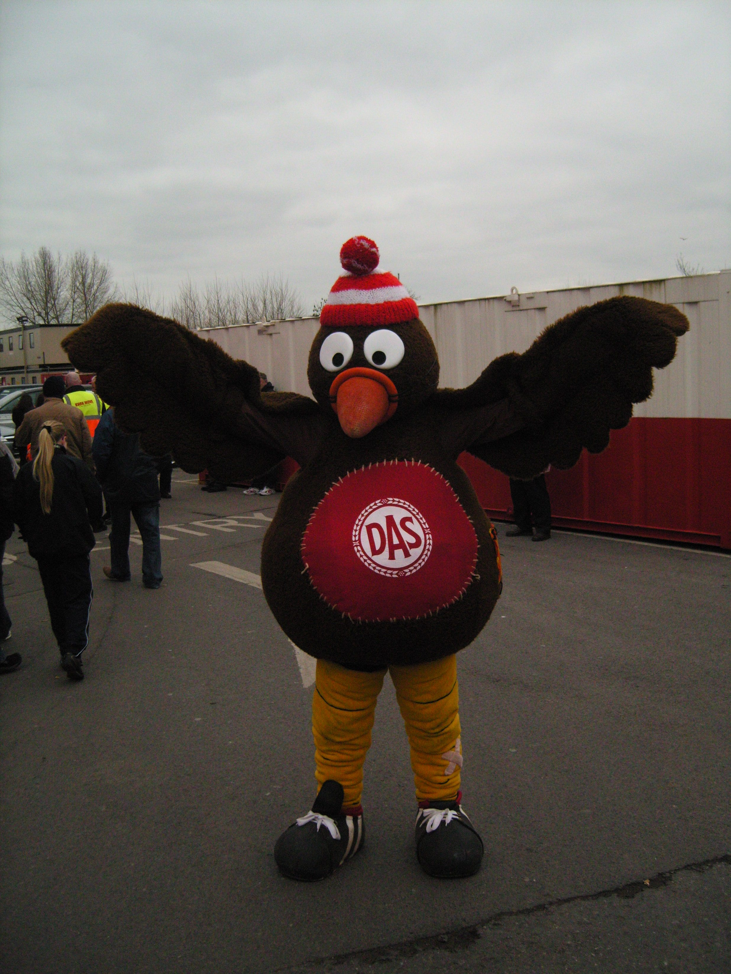 Scrumpy, the Bristol City FC mascot